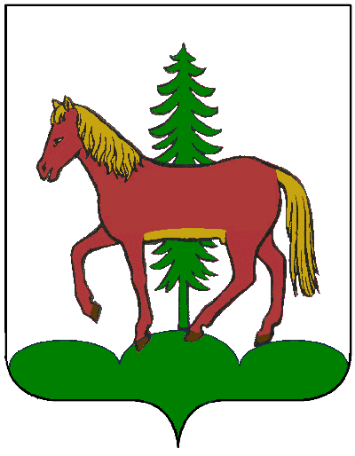 Coat of arms of the municipality of Hafling, South Tyrol.